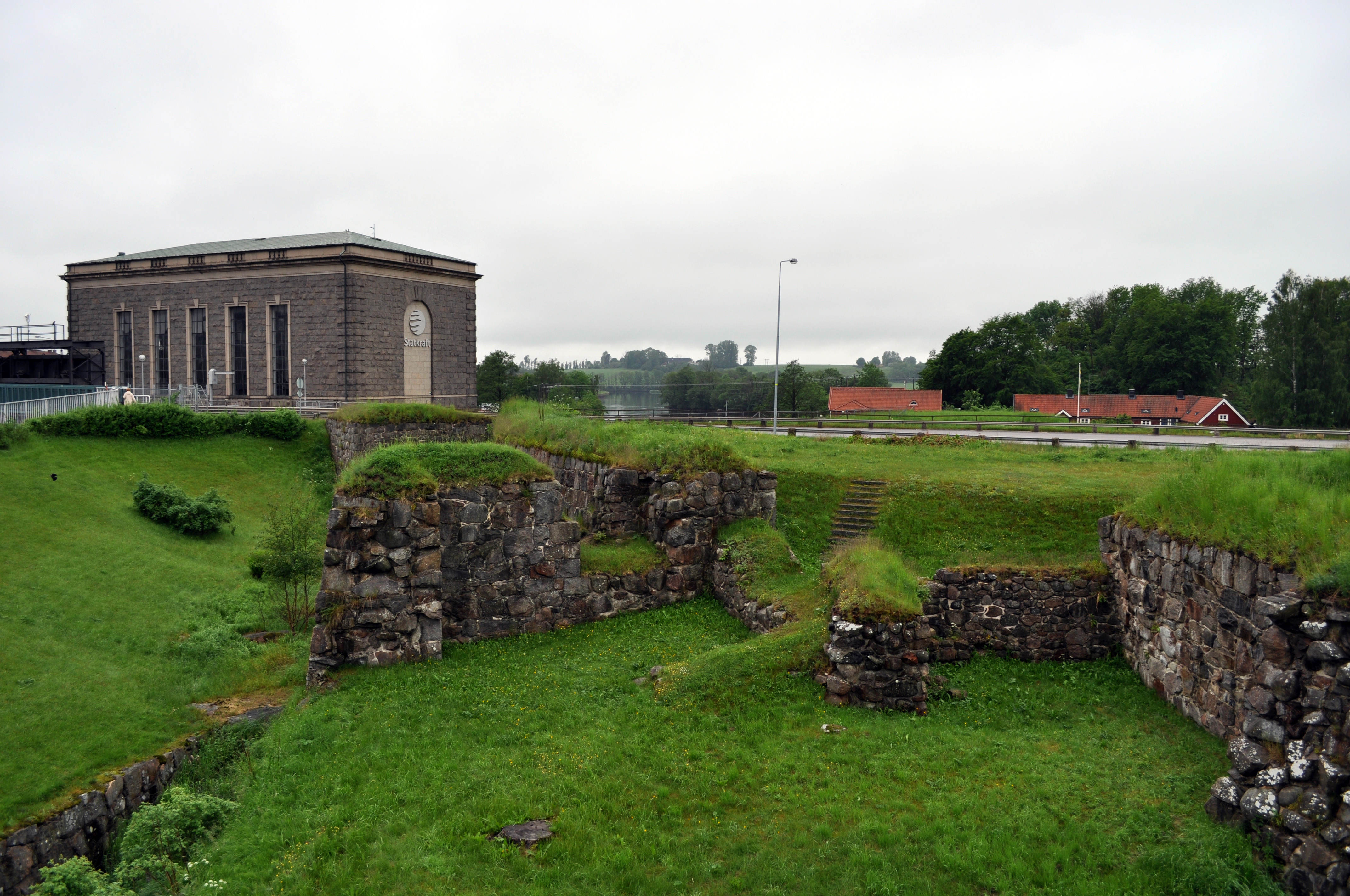 The ruin of Lagaholm with the powerstation in the background.